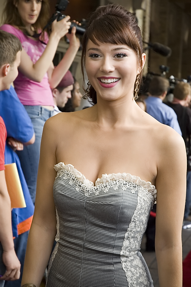 Actress Mary Elizabeth Winstead at the premiere of Grindhouse, Austin, Texas.